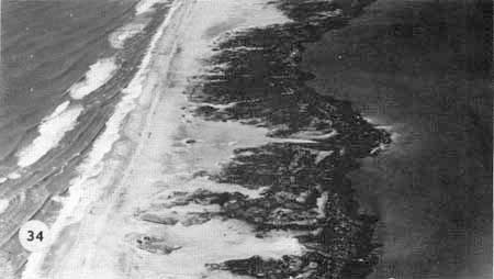 Number 34 from this image shows beach erosion on the Outer Banks after Hurricane Ginger in 1971